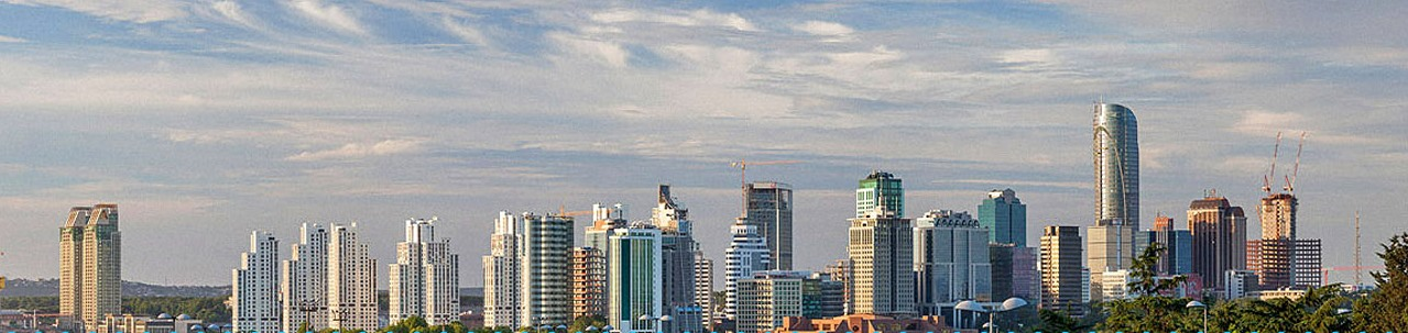 A panorama of Maslak bussines center in İstanbul.